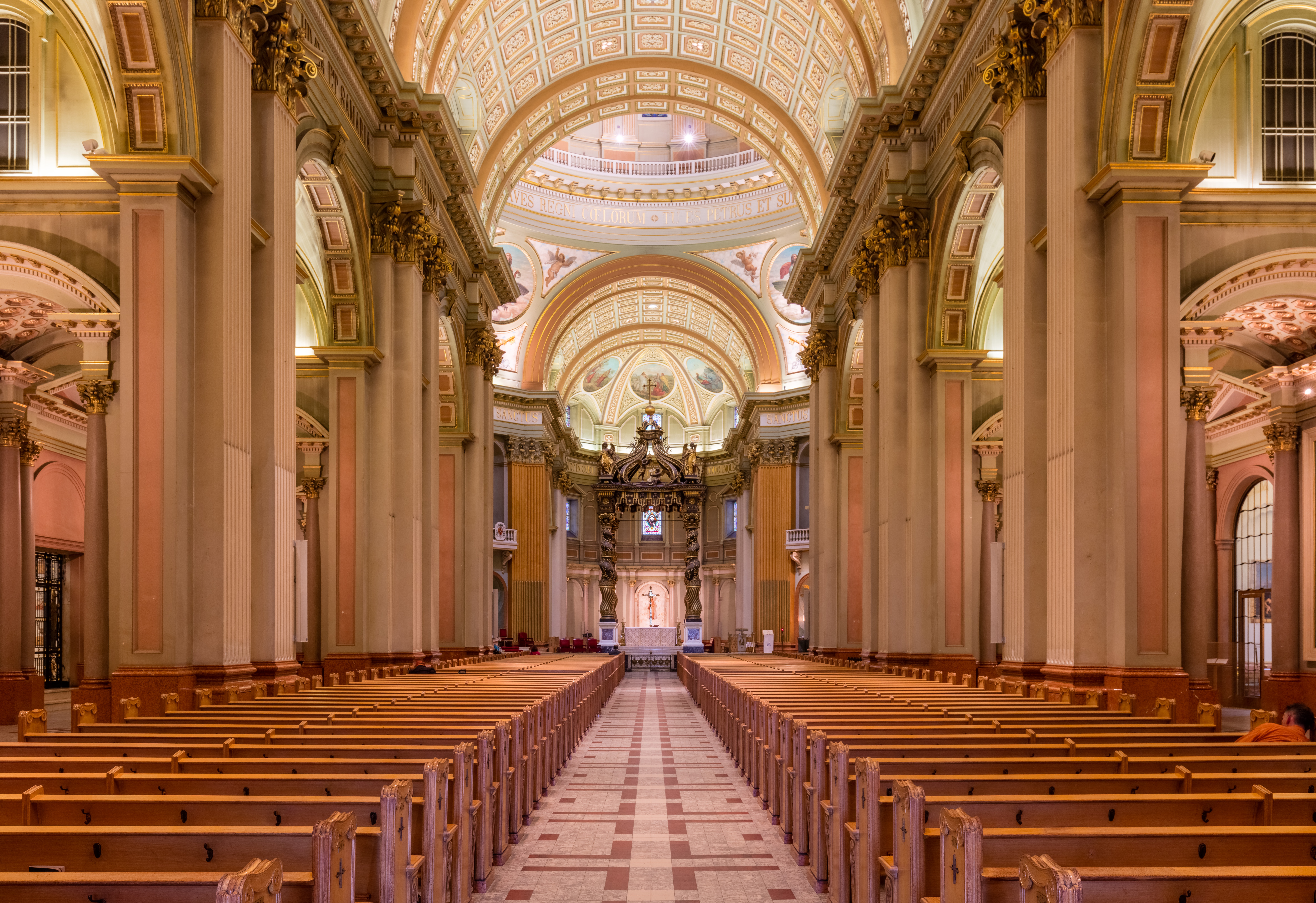 Cathedral-Basilica of Mary, Queen of the World, Montreal, Canada